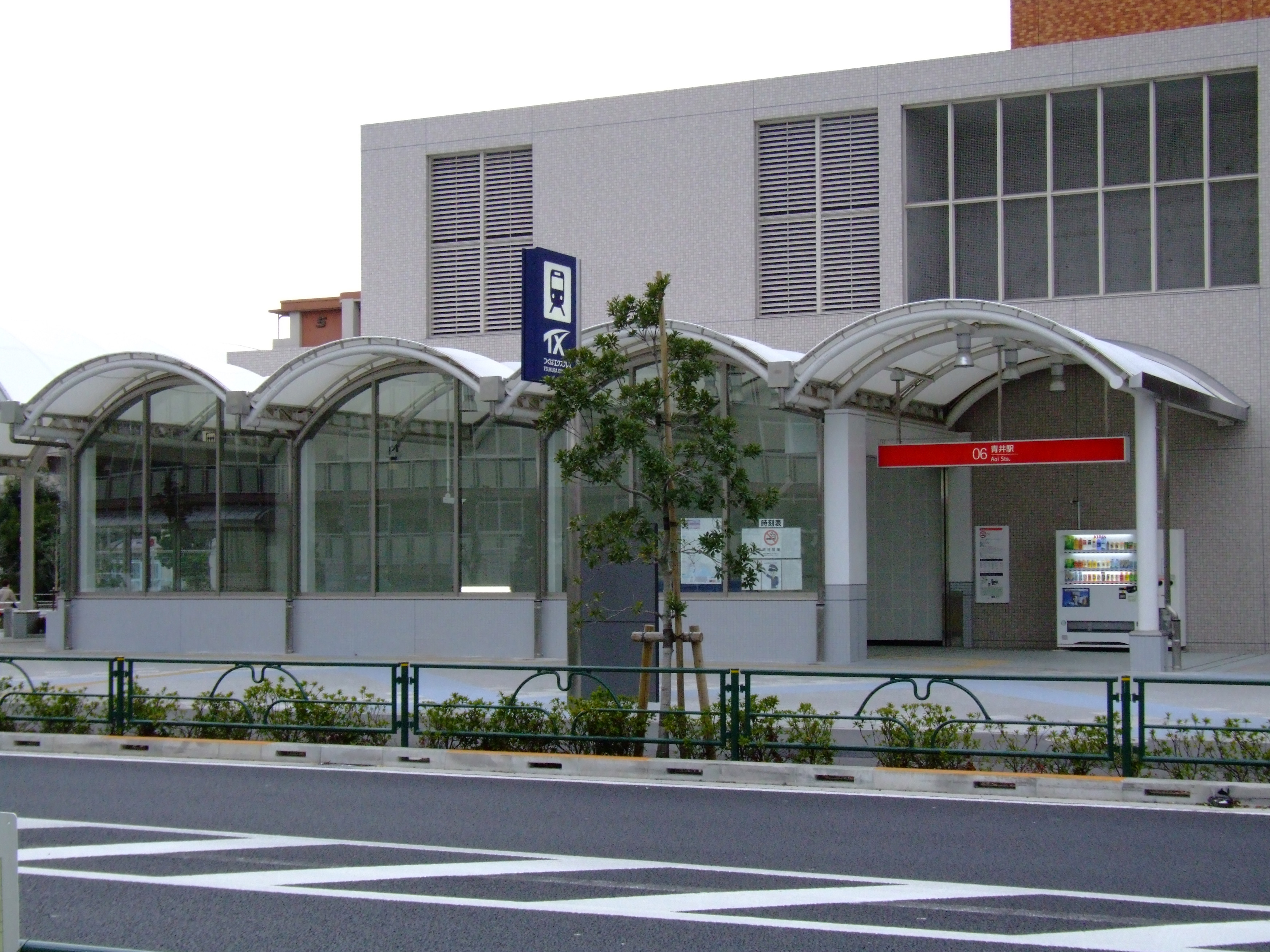 The A1 entrance to Aoi Station on the Tsukuba Express in Adachi city, Tokyo, Japan